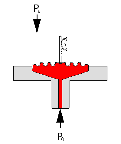 Schematic of membrane pressure gauge